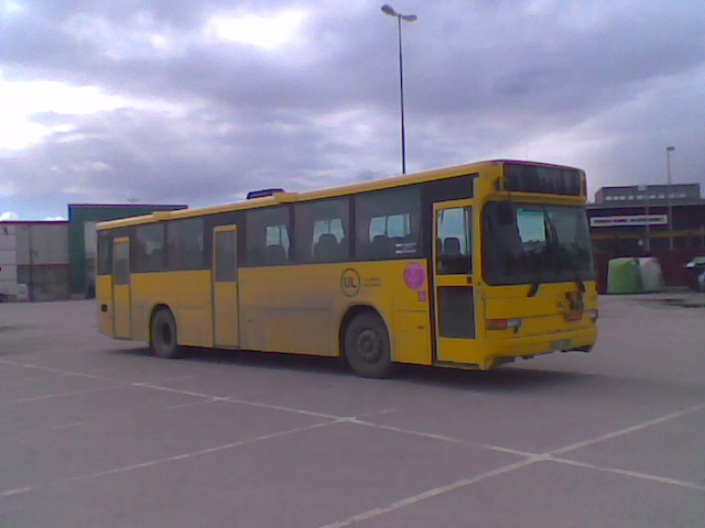 A Nobina Volvo B10M bus (#4550) in Uppsala, Sweden.